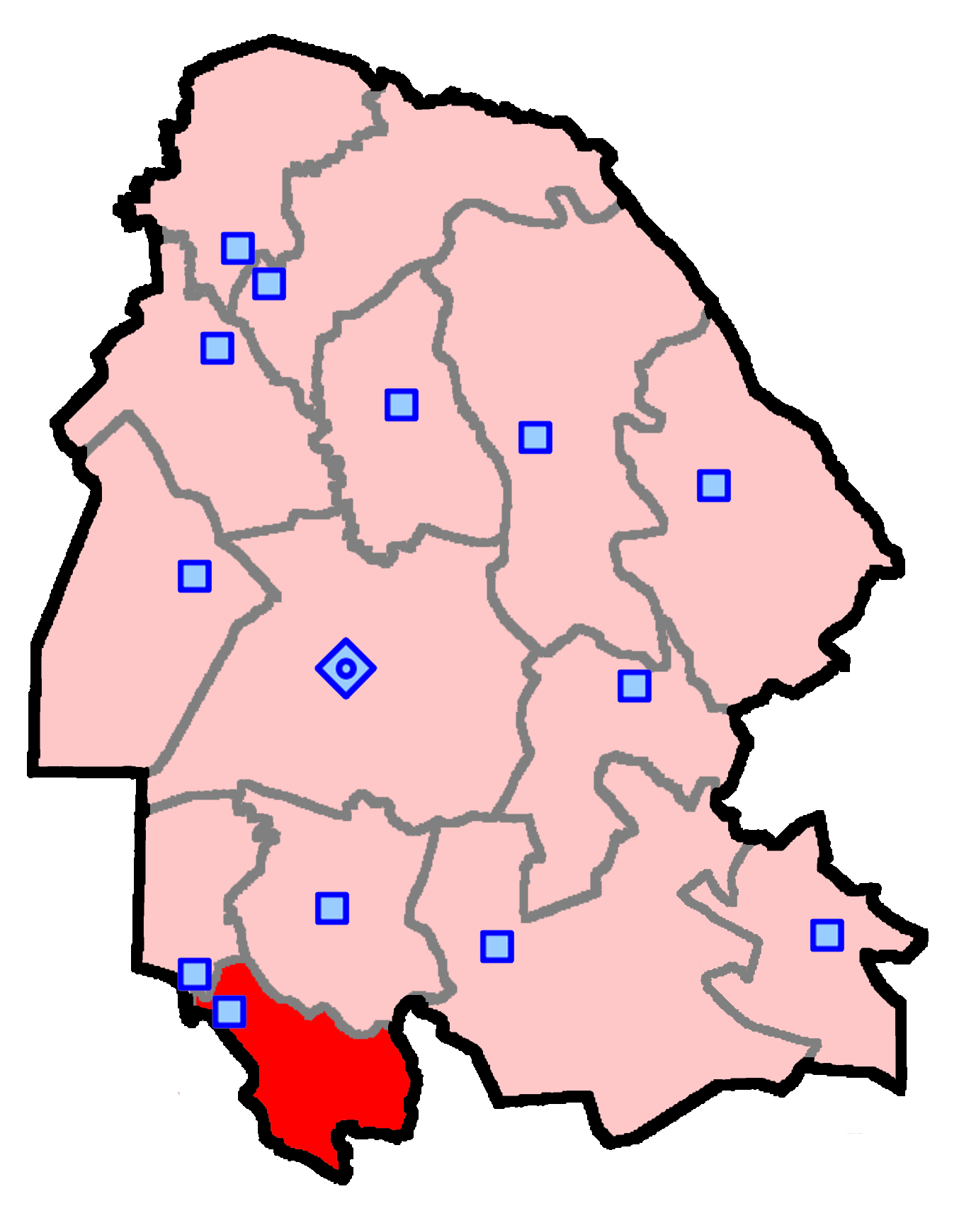 map of Abadan electoral district, Khuzestan Province, Iran